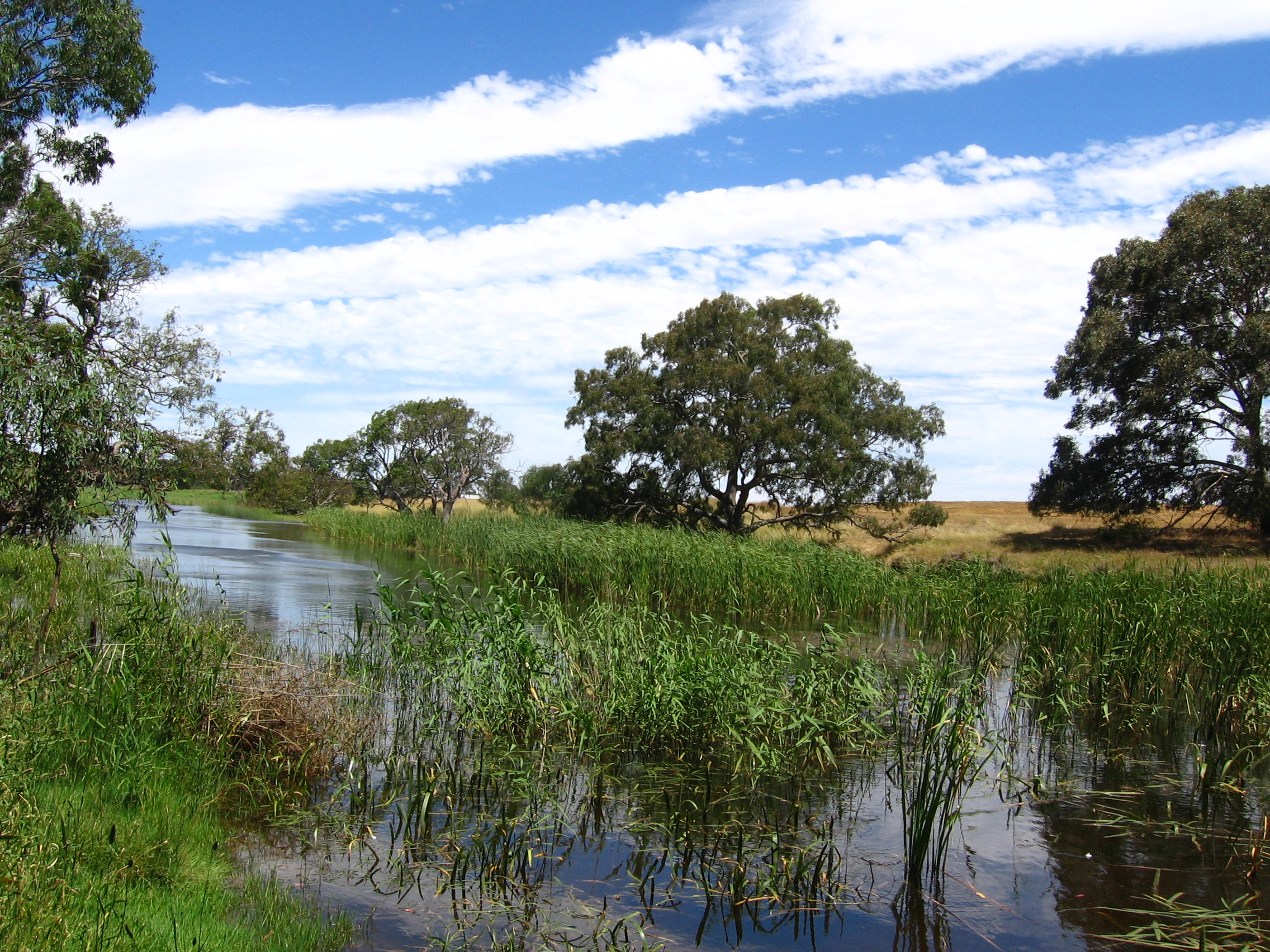 Woady Yallock Creek at Cressy, Victoria